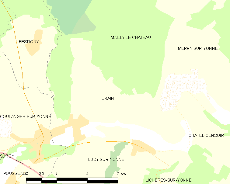 Map of French municipality Crain